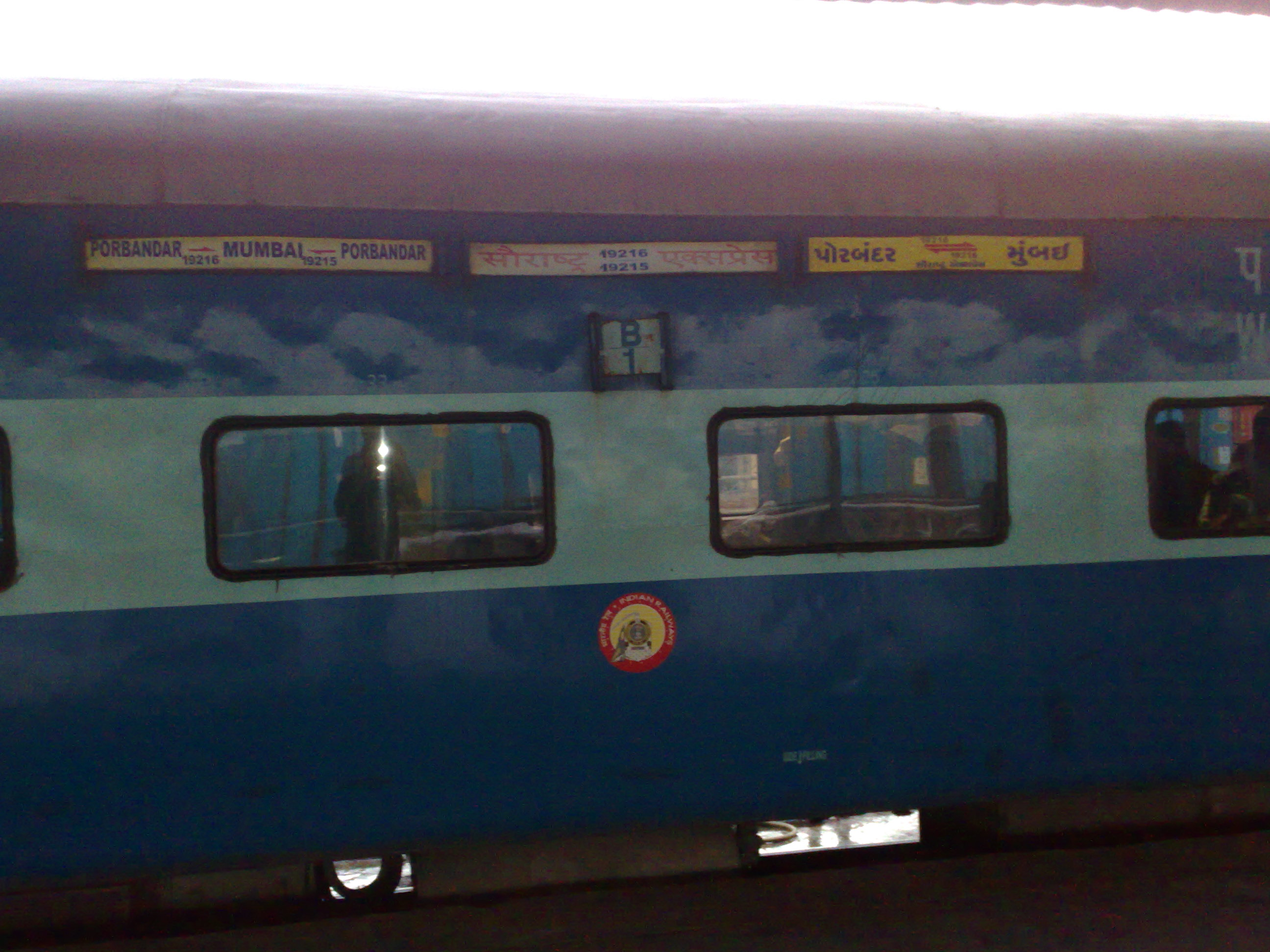 19215 Saurashtra Express - AC 3 tier coach